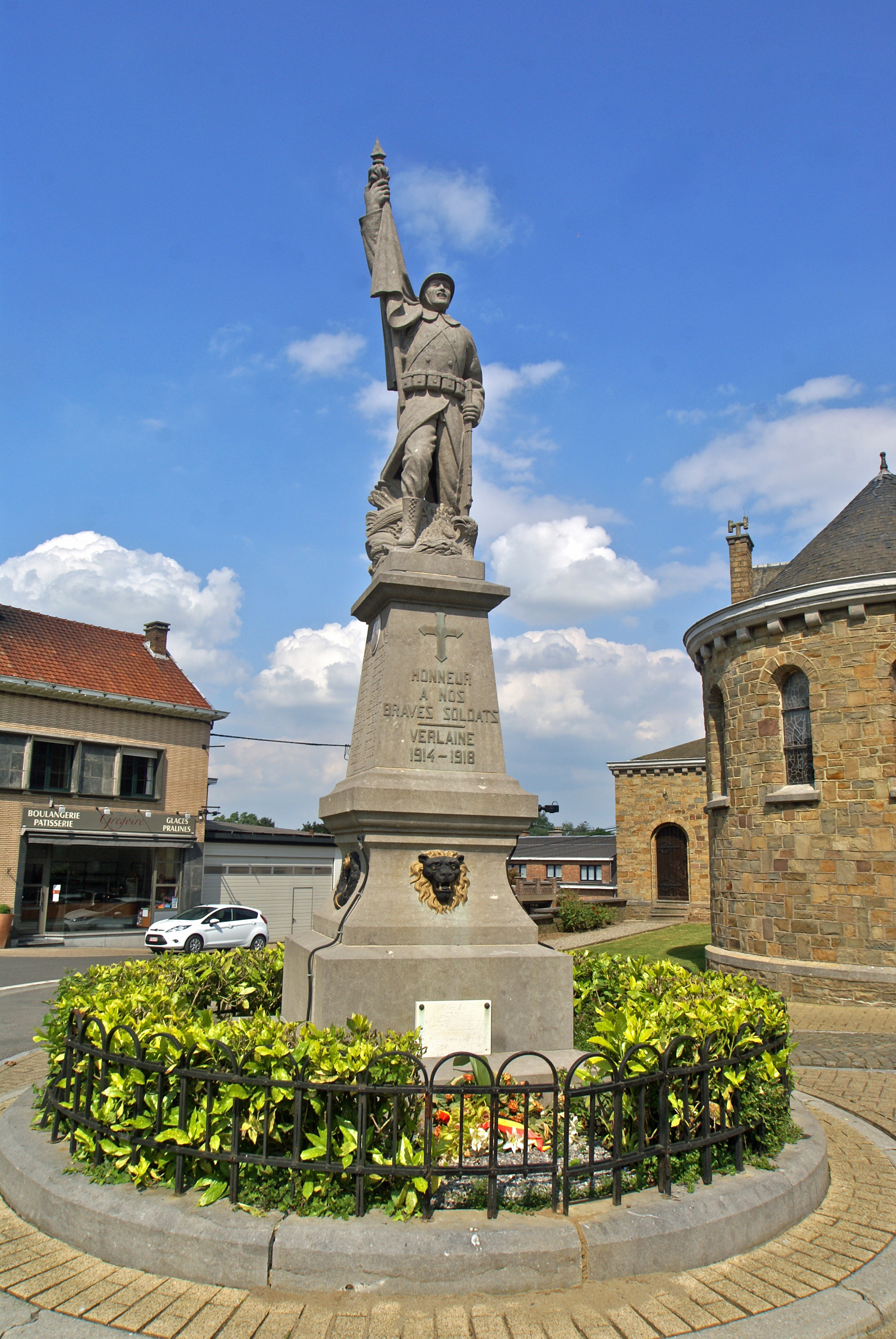 Verlaine, Belgium: War Memorial